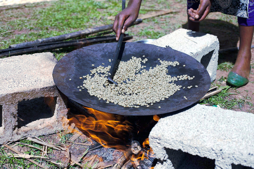 Traditional Ethiopian Coffee Roasting